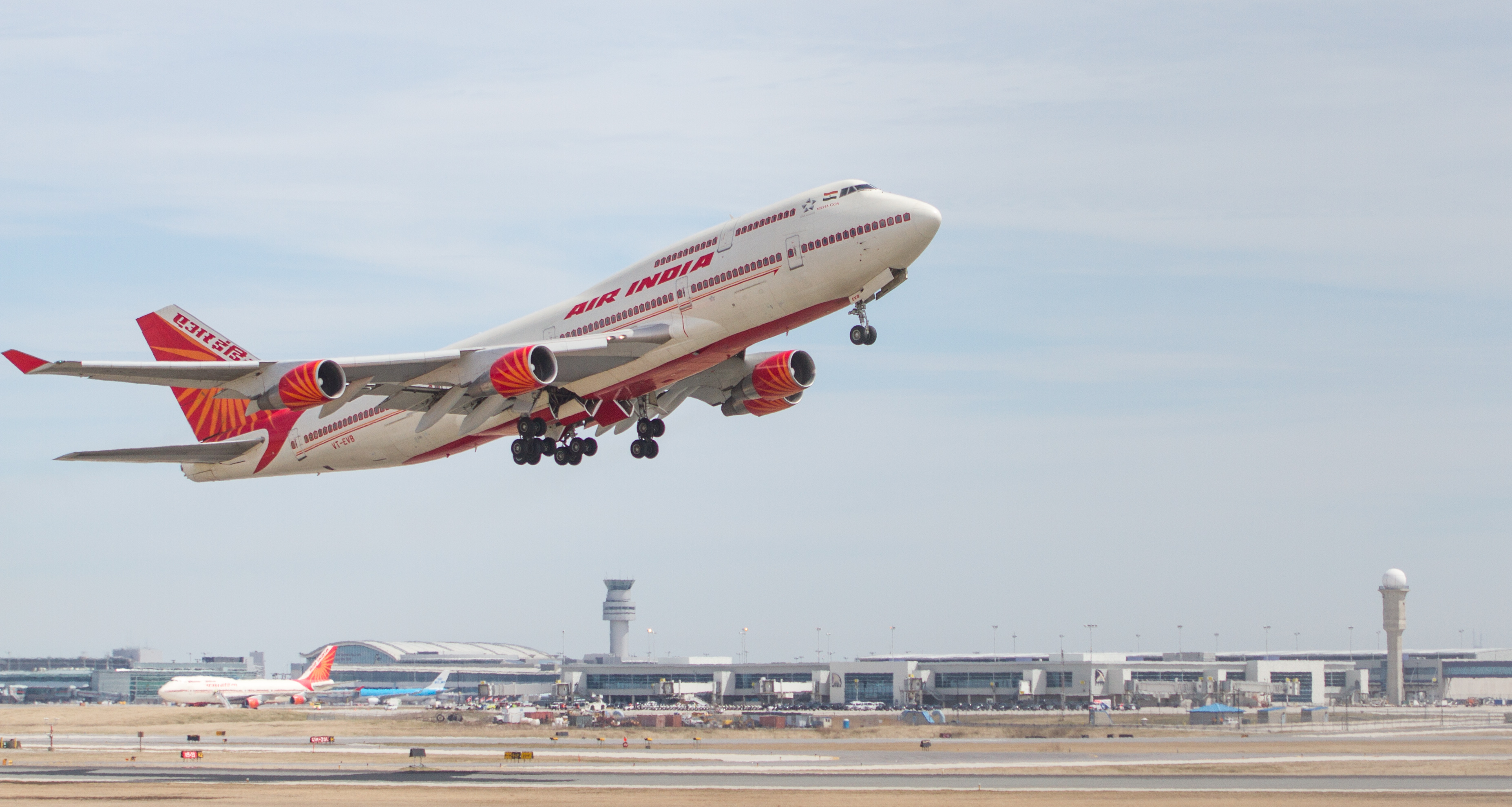 Air India Boeing 747-400 takes off at Toronto Pearson airport (CYYZ), bound for Vancouver, with Indian Prime Minister Narendra Modi on board